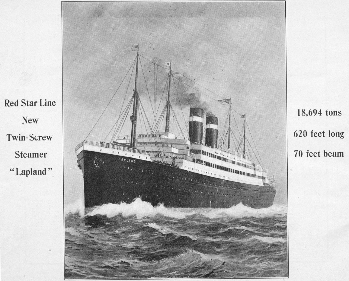 SS Lapland